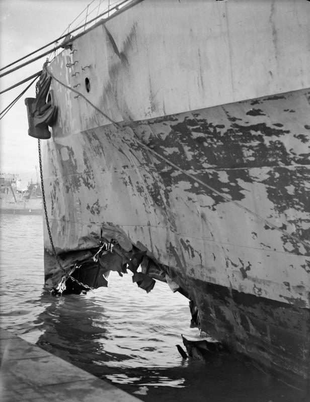 The Royal Navy during the Second World War The damaged bows of HMS ARGONAUT as the ship lies docked. Despite heavy damage after she had been torpedoed in the Mediterranean the British cruiser lived on. She managed to get home where she was repaired before serving in the Far East.